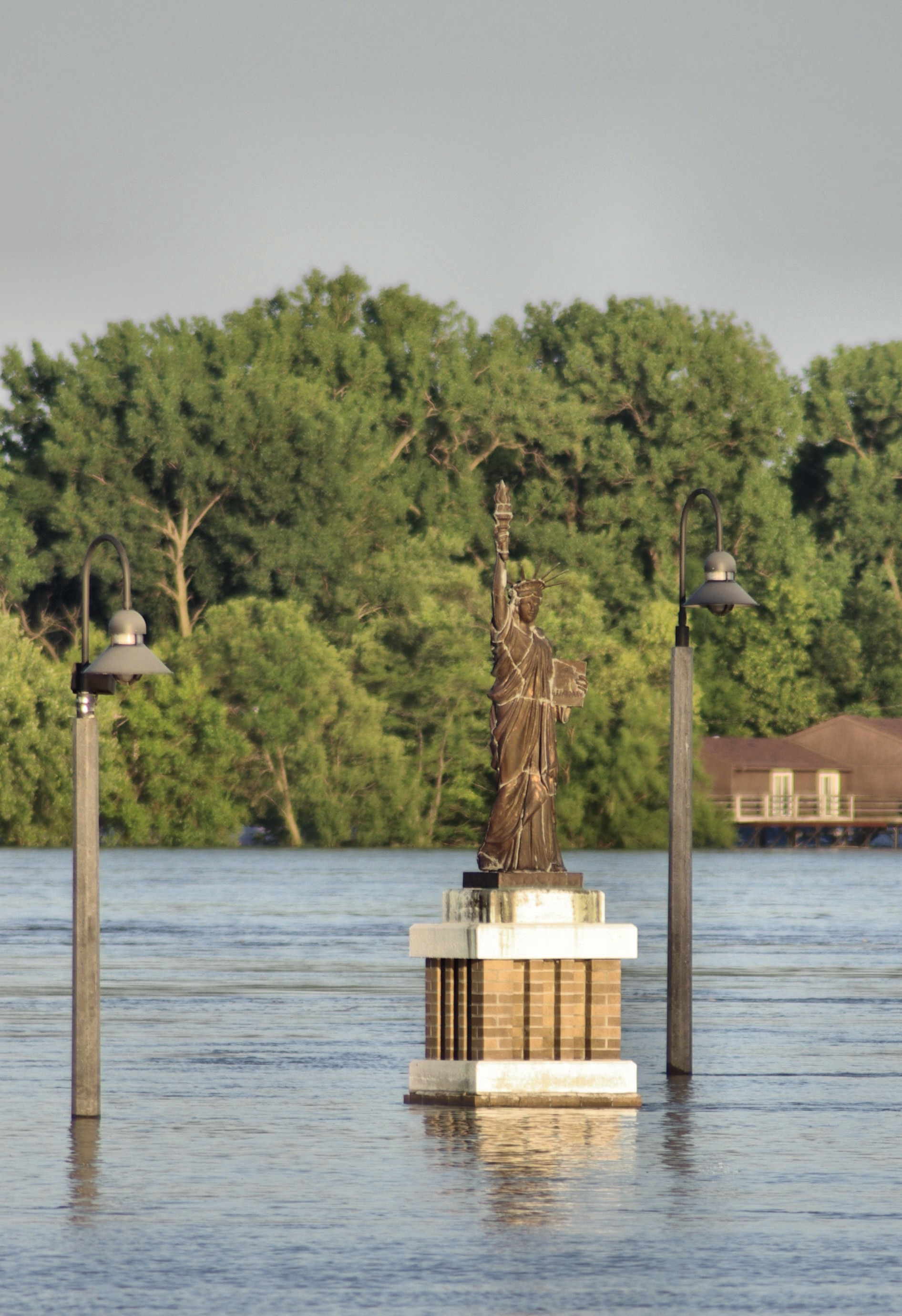 Lady Liberty, part of Strengthen the Arm of Liberty in Burlington, Iowa